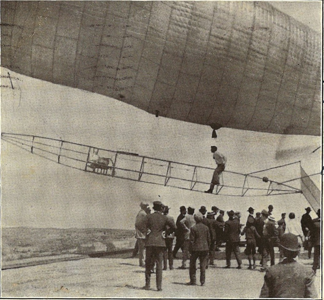 caption on the postcard: Knabenshue and his air ship. Postmark Aug 1905, Toledo Ohio.